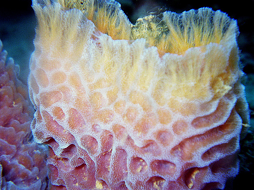 Bonaire is truly exceptional with regard to its sponges. This little guy was maybe only a few inches across; the the color and detail are astounding.